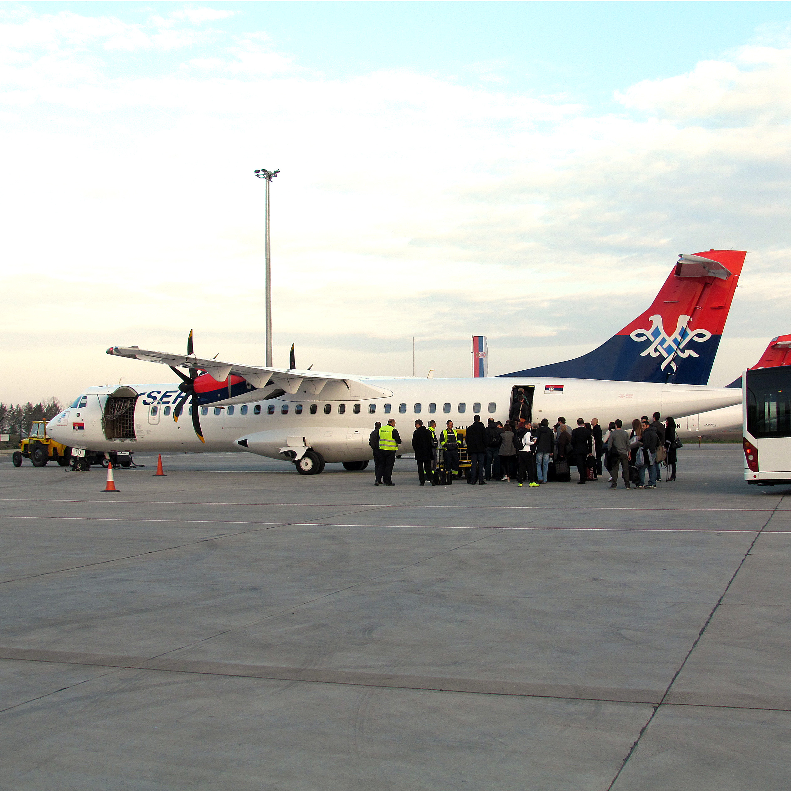 Airserbia ATR 72 at Belgrade Nikola Tesla Airport in 2015.